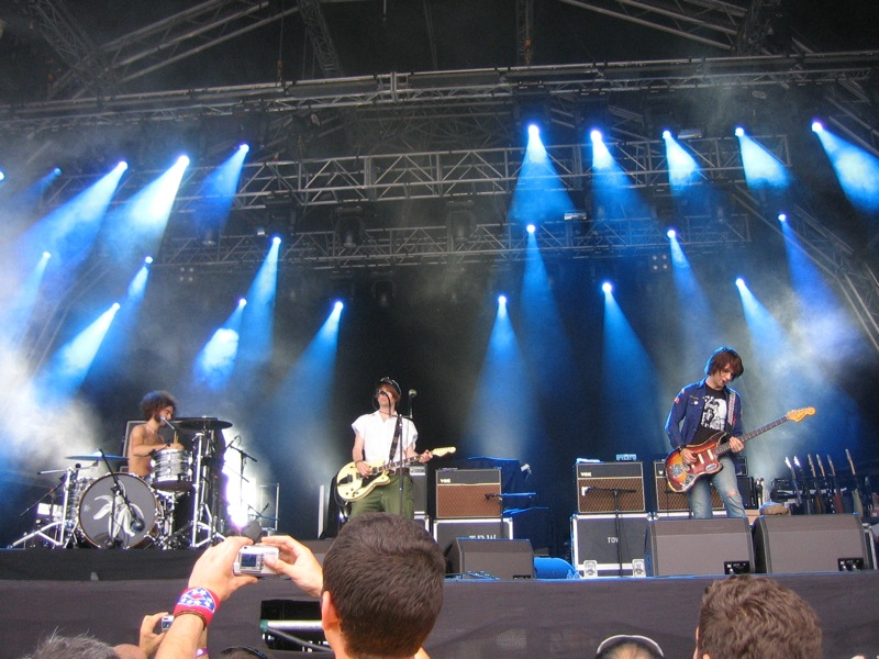 The Dandy Warhols @ Summercase BCN 06